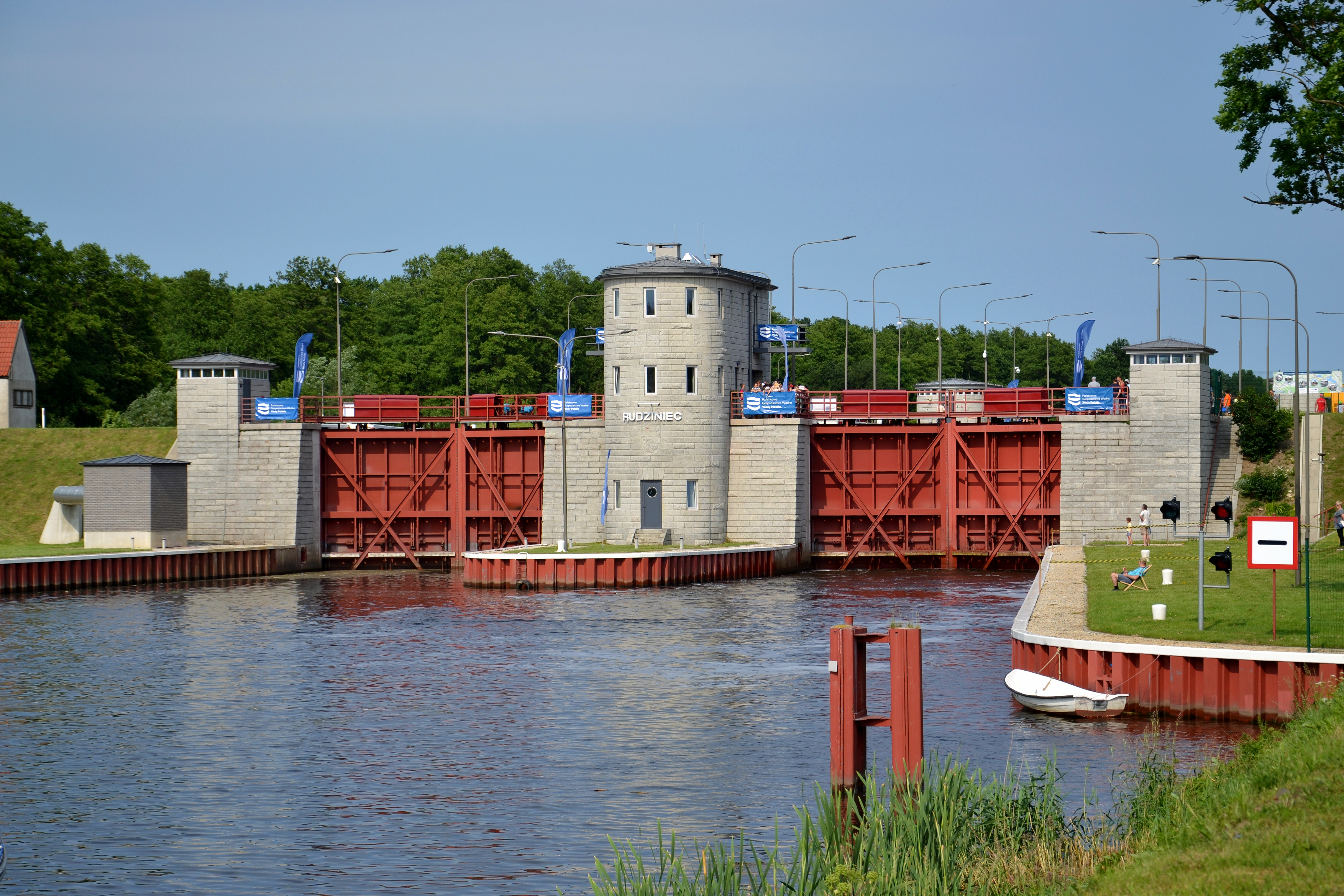 Gliwice Canal (Gleiwitzer Kana), Lock Rudziniec (Rudzinitz), Silesia